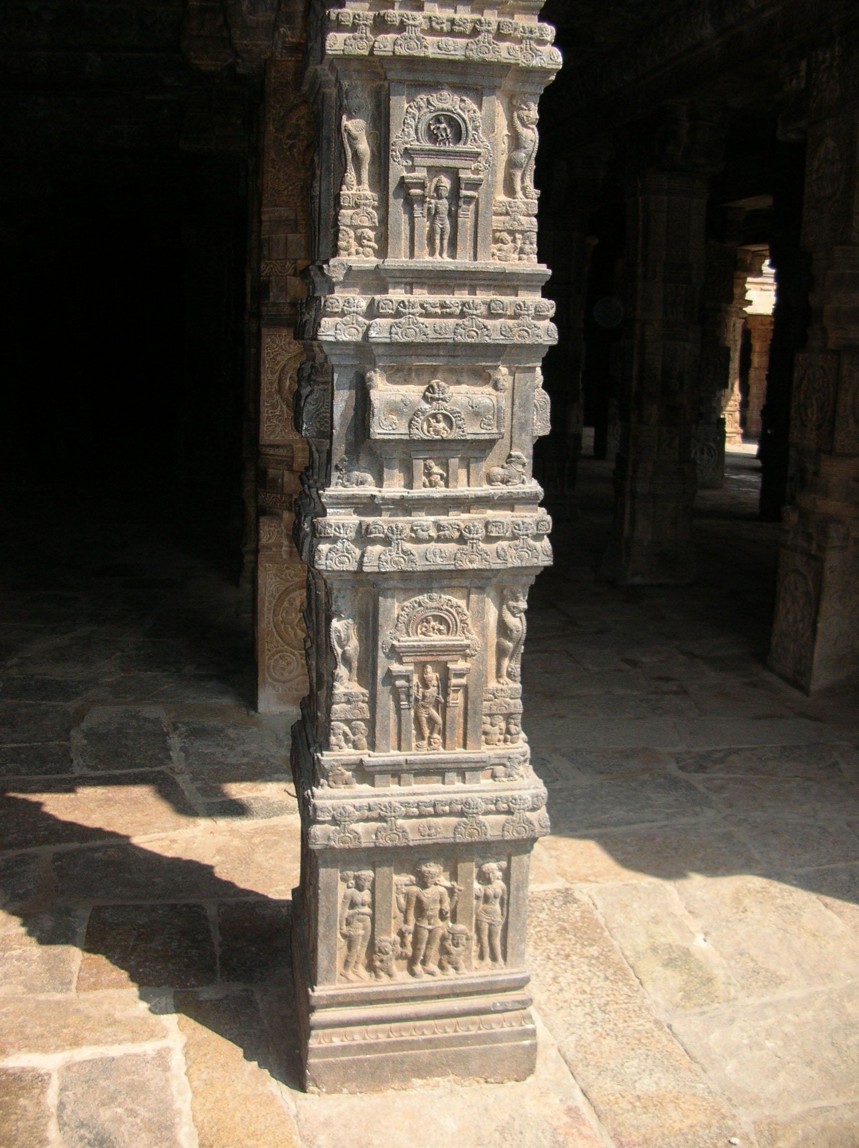 Ornamented pillar, Darasuram